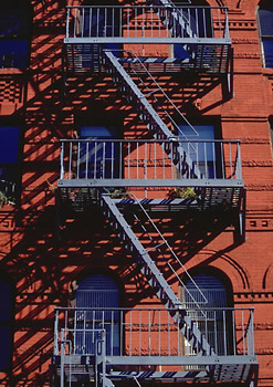 Fire Escape in SoHo, Manhattan.